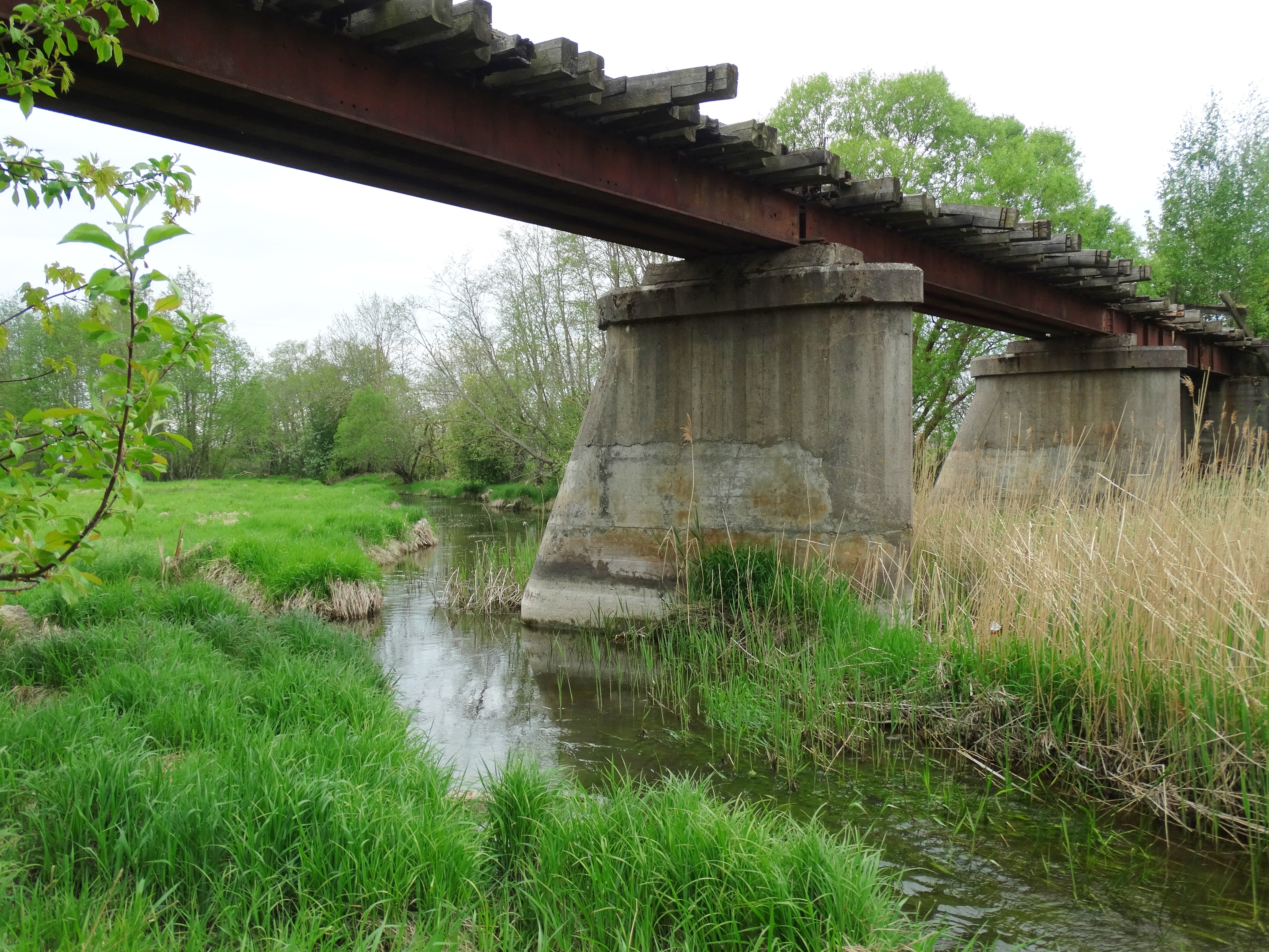 Bridge on Daugyvenė River, Rimšoniai, Pakruojis district, Lithuania